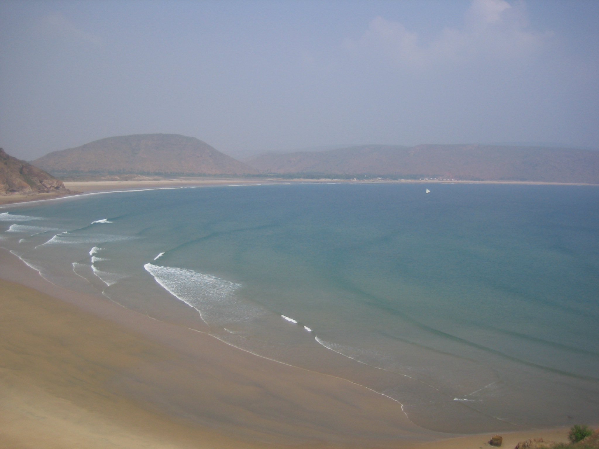 View of the beautiful Gangavaram beach.